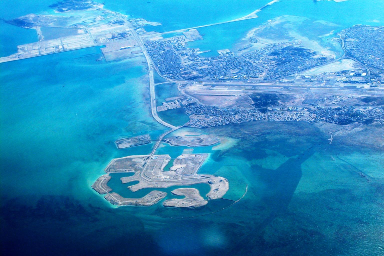 Amwaj Islands in Bahrain - pictured Feb 2005